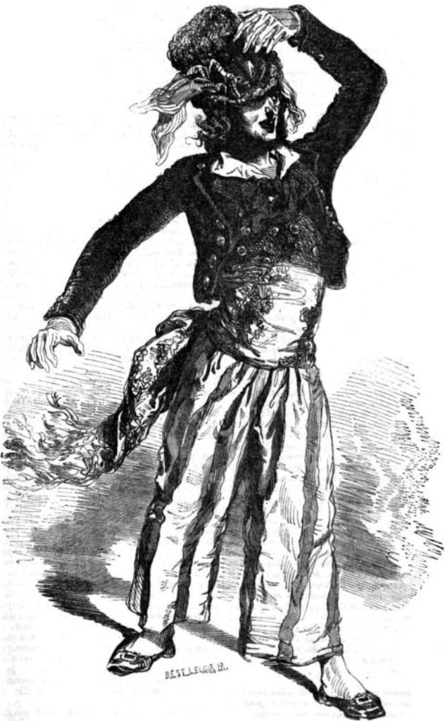 Illustration of The Wandering Jew (1844) by Eugène Sue (1804-1857): Couche-tout-nu